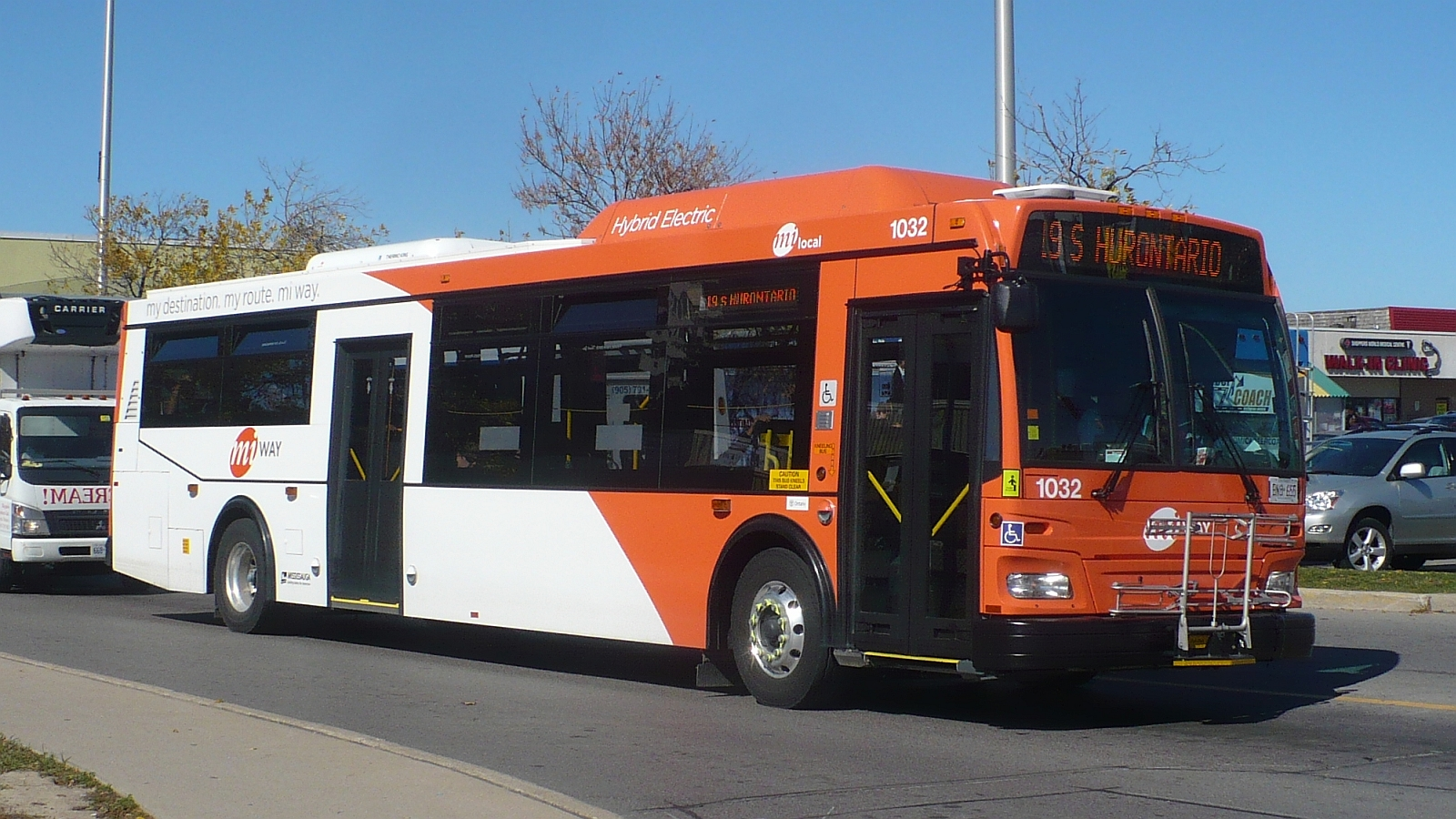 MiWay bus 1032 (formerly Mississauga Transit)